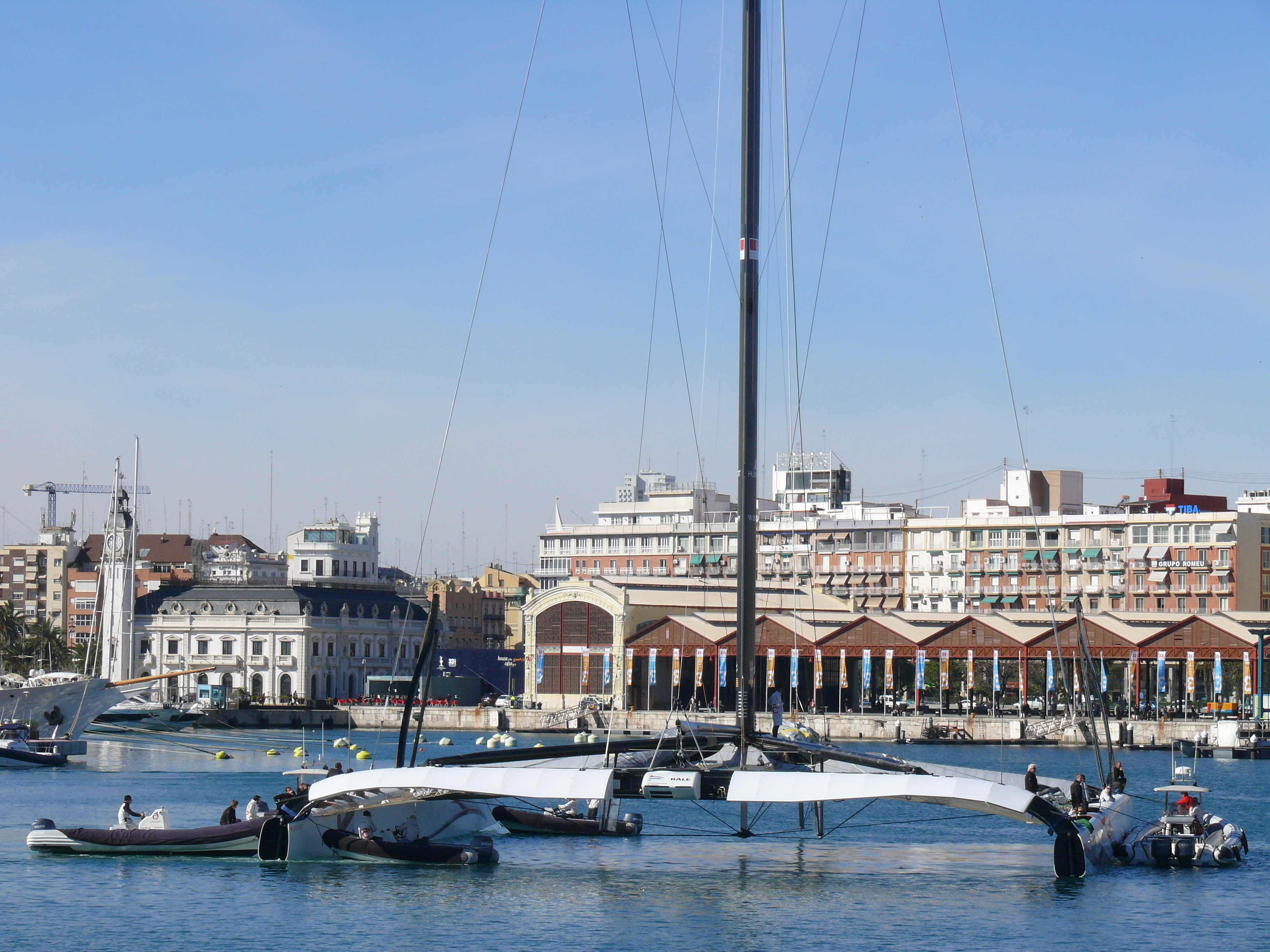 Alinghi 5-Yacht 2010, Valencia